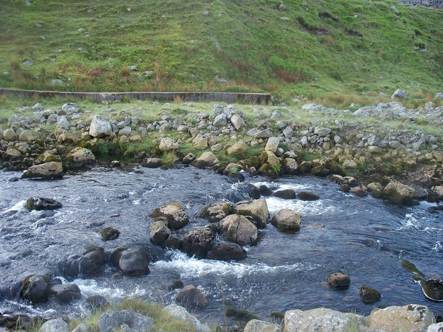 Afon Twrch where public footpath crosses river The map says that the footpath crosses at this point but the river was too high on this occasion (indeed the Afon Twrch is not an easy river to ford in my experience - even higher upstream). Ffrydiau Twrch are directly behind this shot.